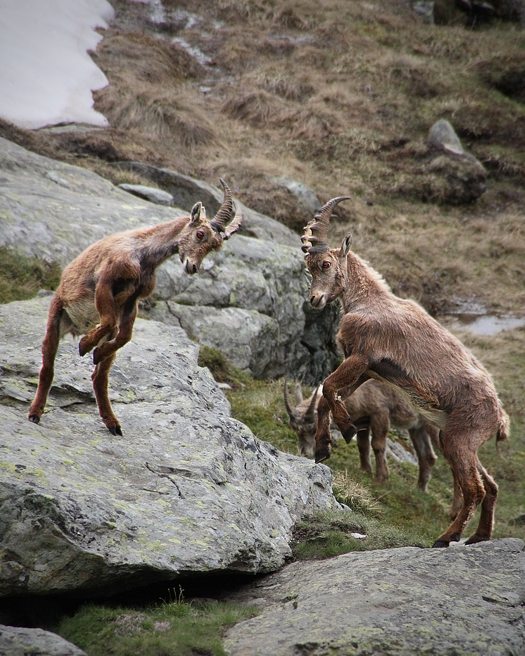 Ibex fighting in the Mattertal in Valais, Switzerland